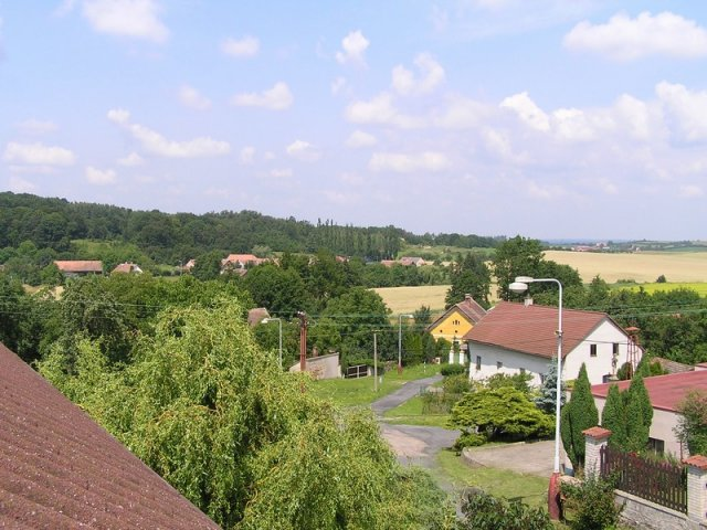 Village Tupesy in Přelouč in the Czech republic